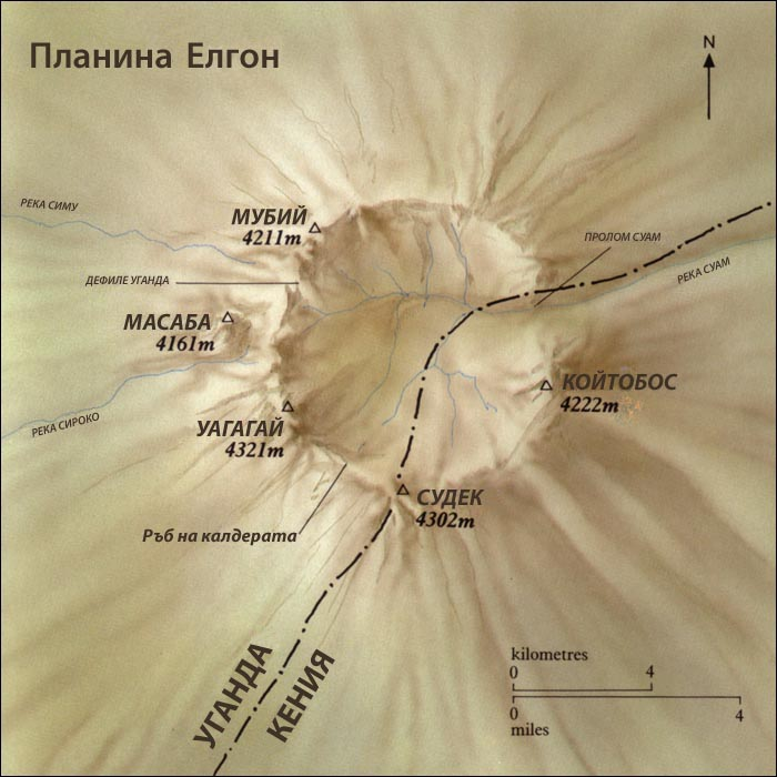 Scheme of Mount Elgon on the border between Kenya and Uganda with the five highest peaks.